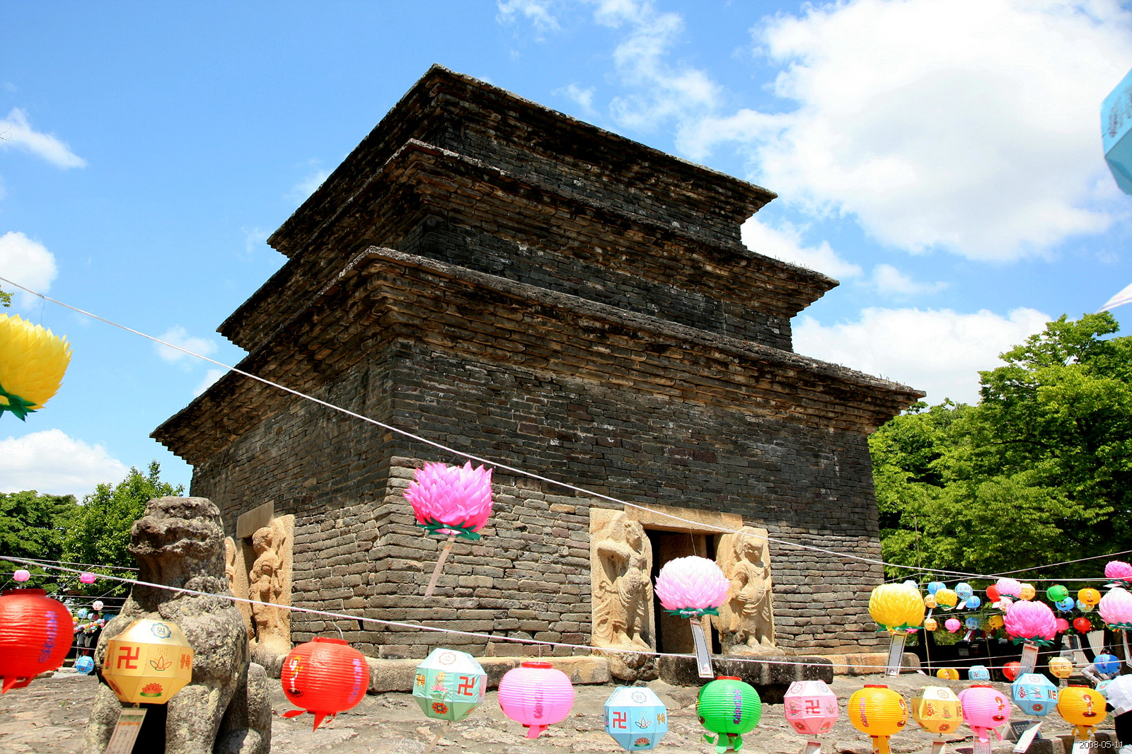 A view of Bunhwangsa, Gyeongju, North Gyeongsang province, South Korea